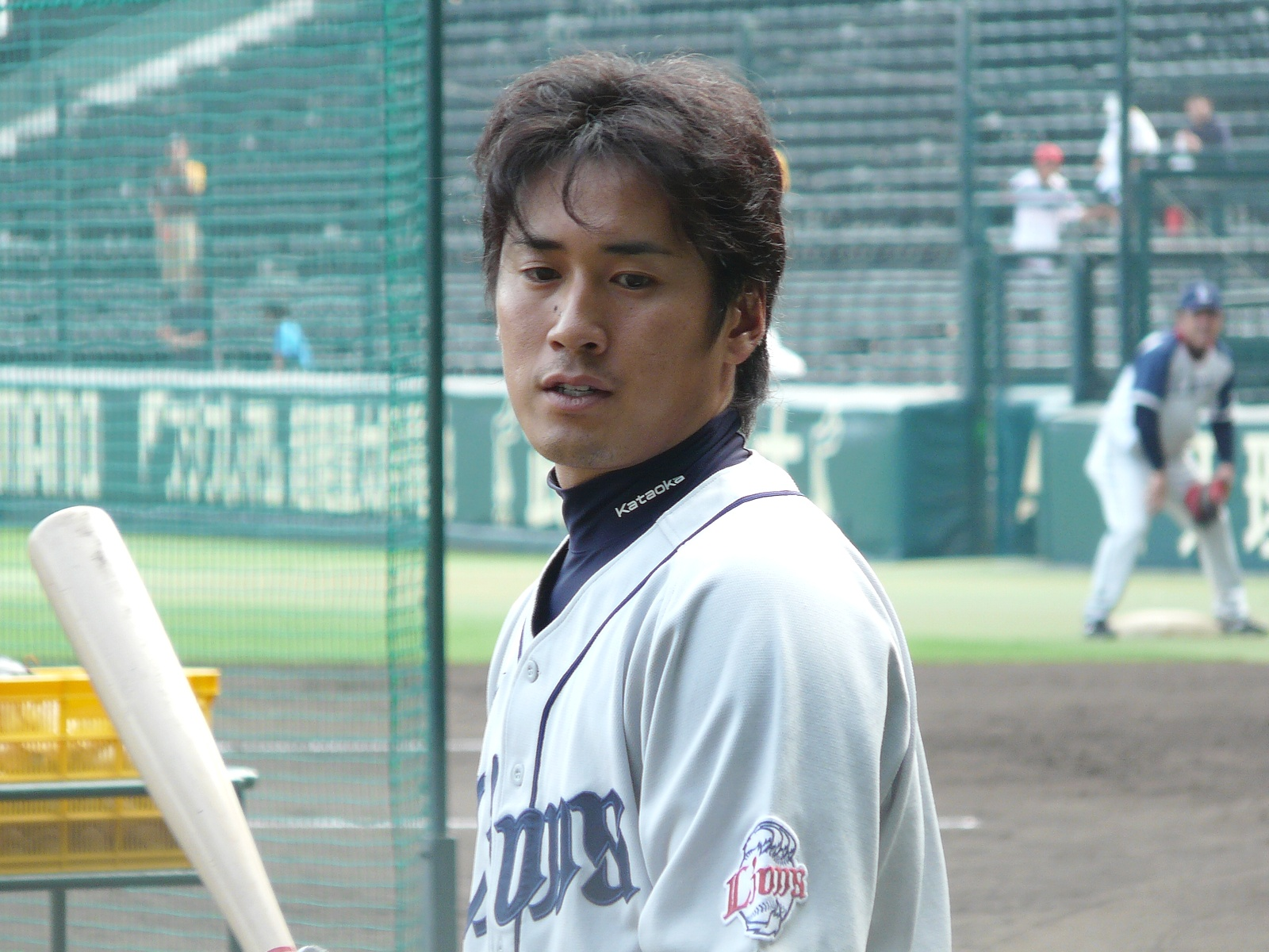 SL-Yasuyuki-Kataoka20120528